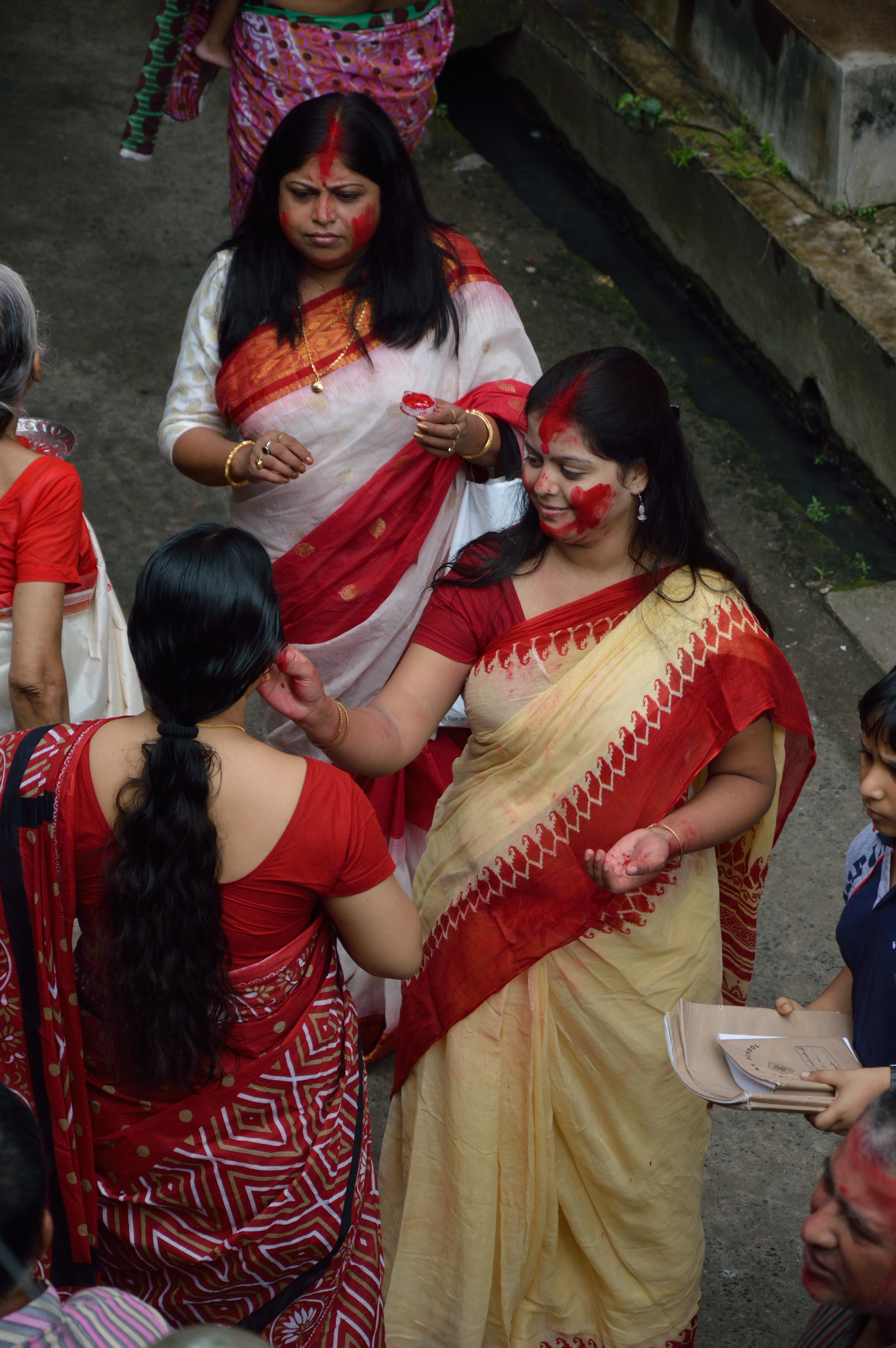 Photographed during the Durga Puja festival in Kolkata.